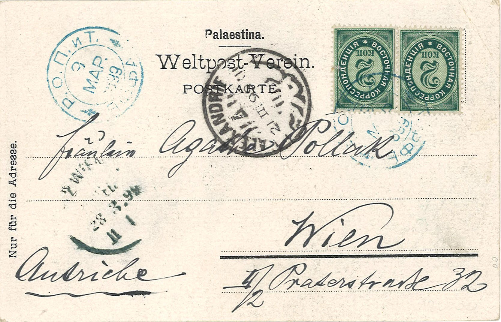 Postcard with a view of Jerusalem transported from Jerusalem to Vienna by ship post of the ROPiT (Odessa) 1899